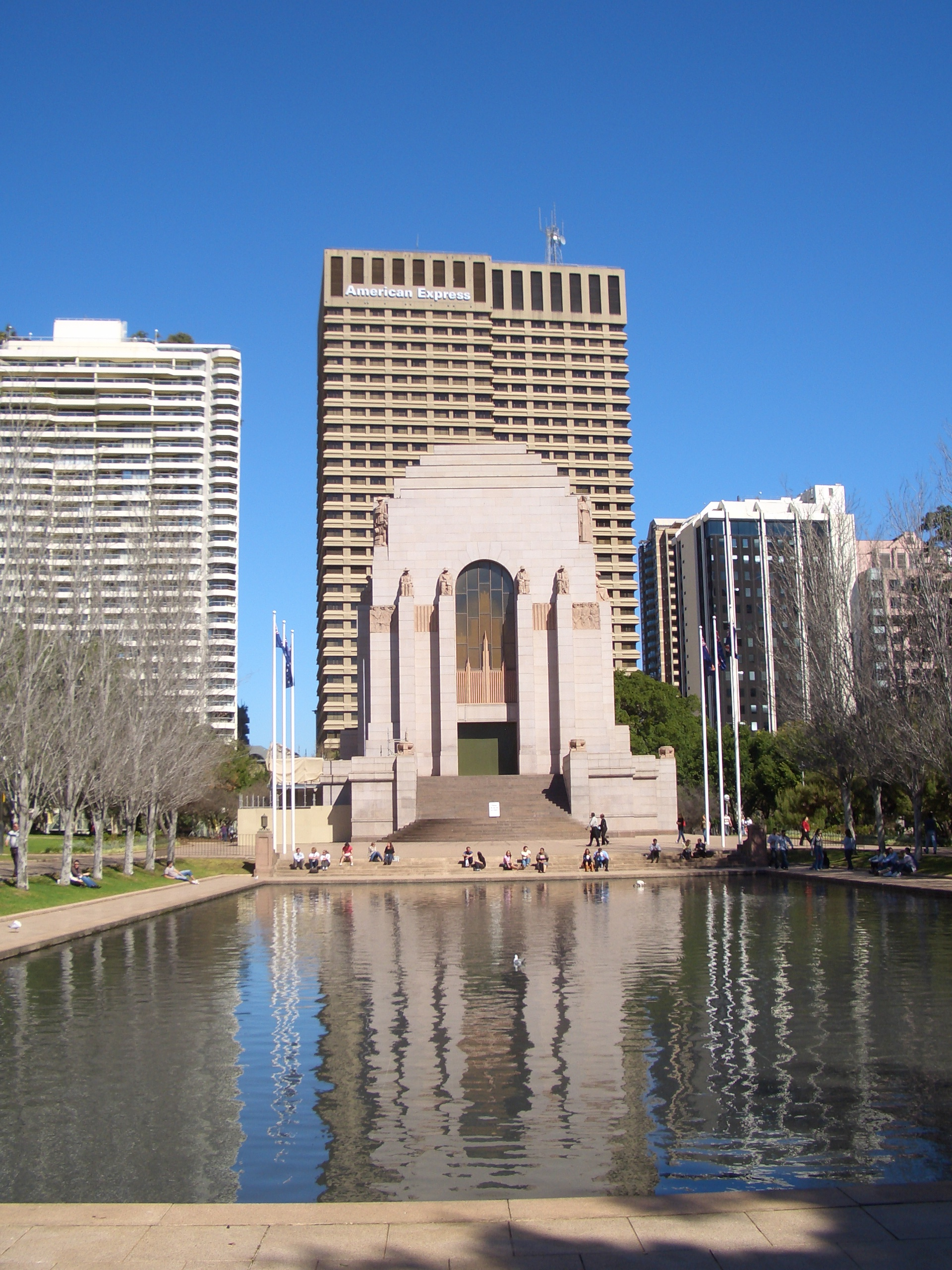 Anzac War Memorial and Pool of Remembrance, Hyde Park, Sydney, Australia.